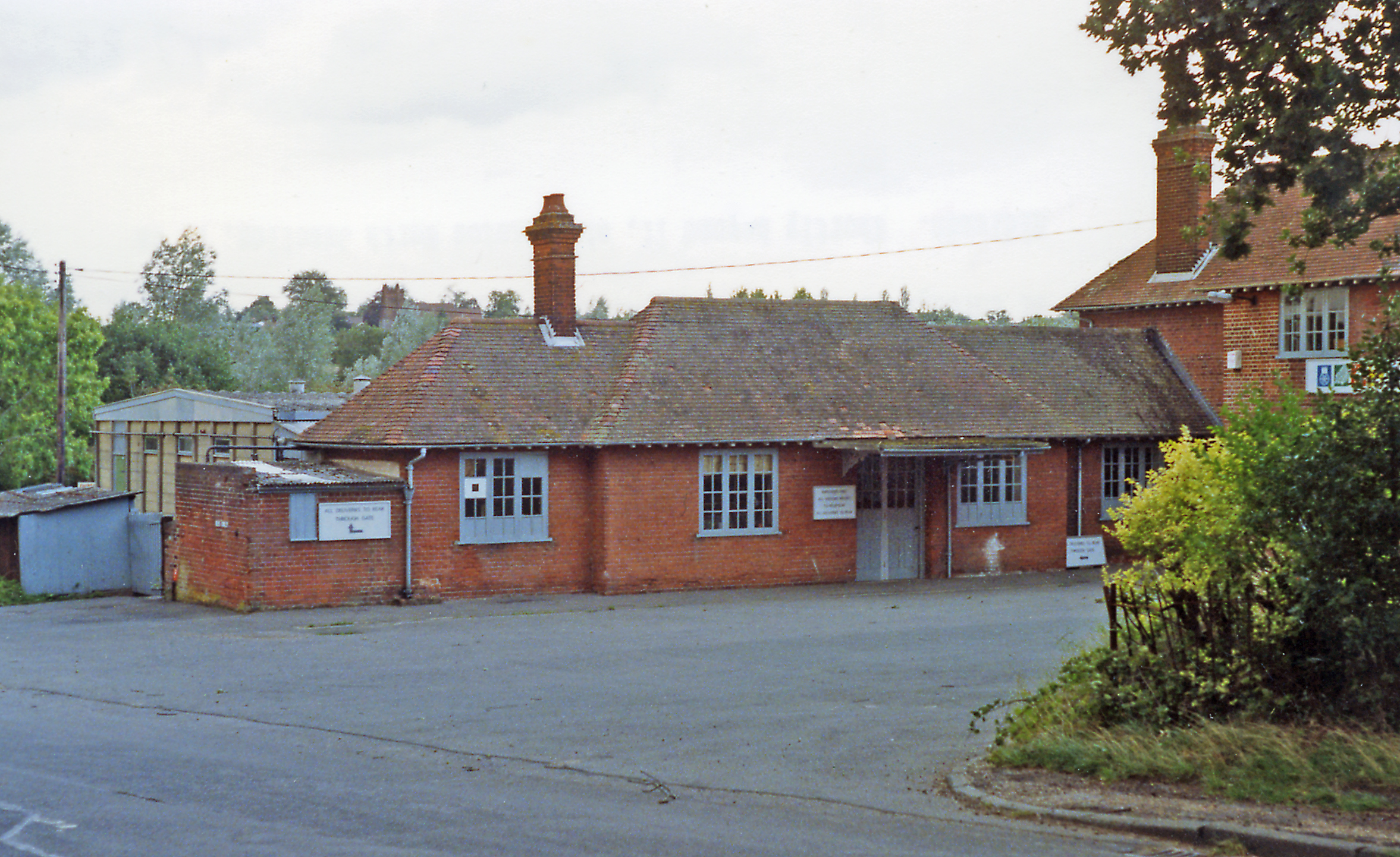 Earls Colne: former railway station, 1992. View SW of a quite well-preserved building formerly a station on the ex-Colne Valley & Halstead Railway, which looped off the ex-GER Markes Tey - Sudbury - Haverhill - Cambridge line between Chappel & Wakes Colne (to right) and Haverhill (to left) via Halstead. The station and line closed to passengers from 30/12/61, to goods from 28/12/64.